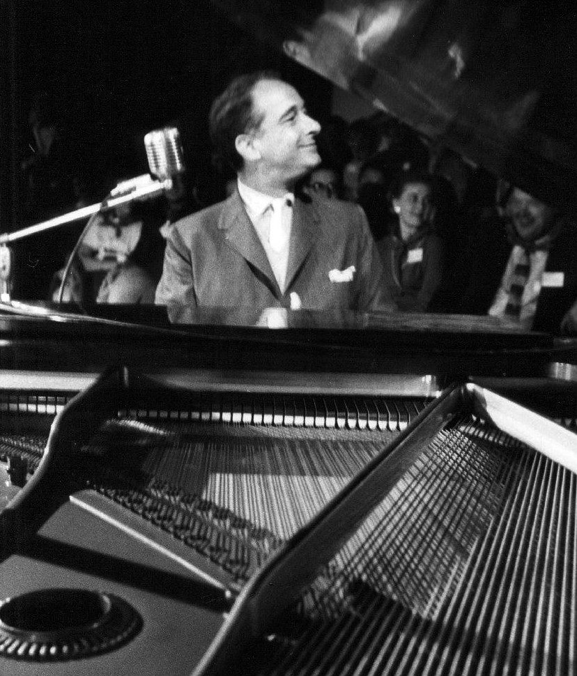 Photo of Victor Borge in concert.